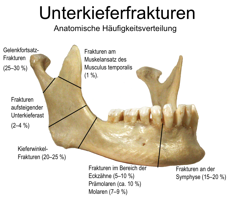 Mandible demonstrating the frequency of mandibular fractures by location. (german)